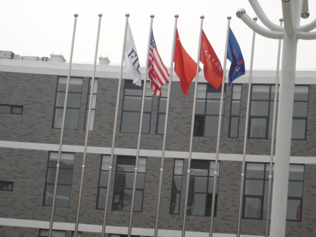 FIU School of Hospitality & Tourism Management Tianjin Center Flagpole